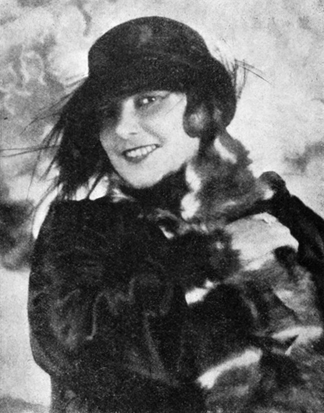 Julie Reisserová (1888-1938) was a Czech composer, poet and critic.